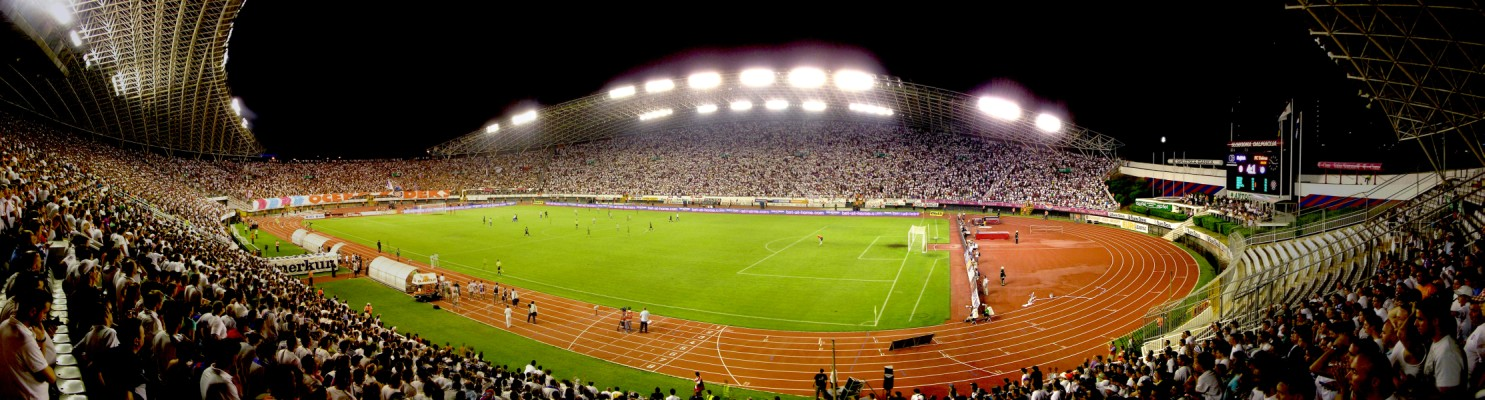 Almost 40,000 spectators in the Hajduk - Unirea match